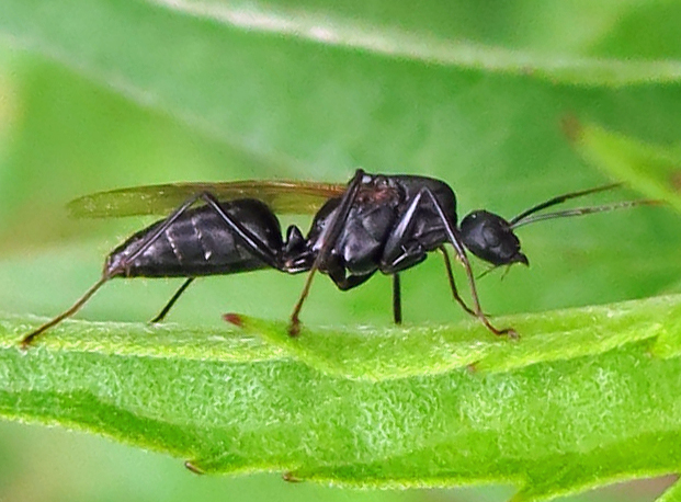 Black Carpenter Ant Camponotus pennsylvanica male, Leamington, Ontario, Canada.